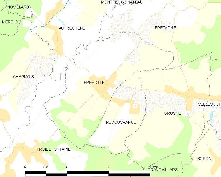 Map of French municipality Brebotte